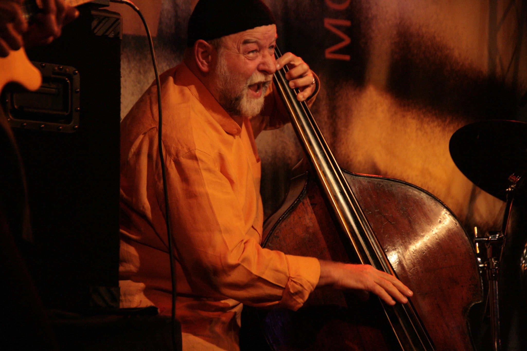 Henri Texier au New Morning, Paris, Mars 2007.